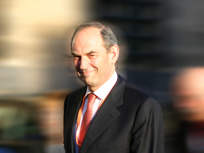 Job Cohen